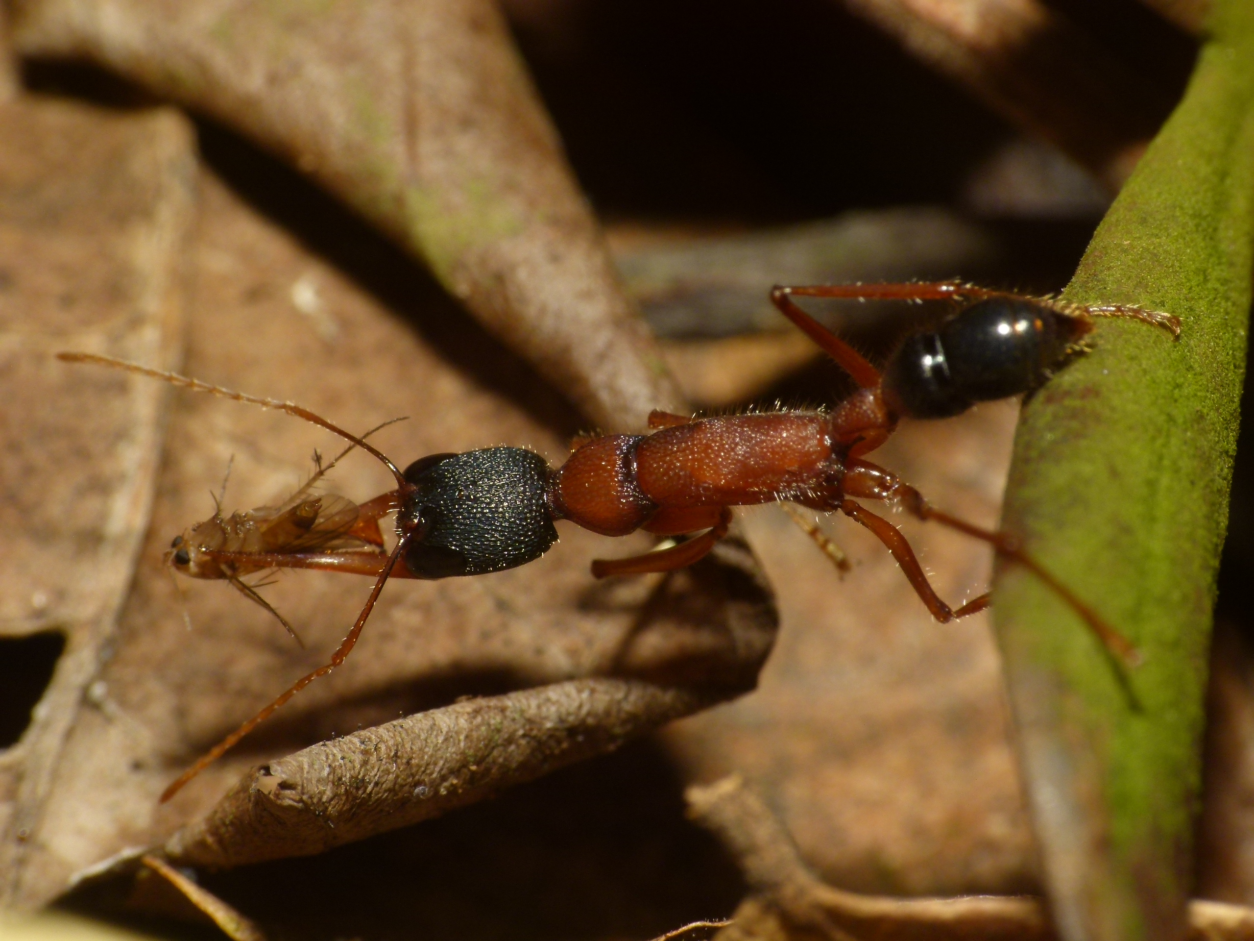 Harpegnathos saltator (black head morph) with prey, Wynaad, India